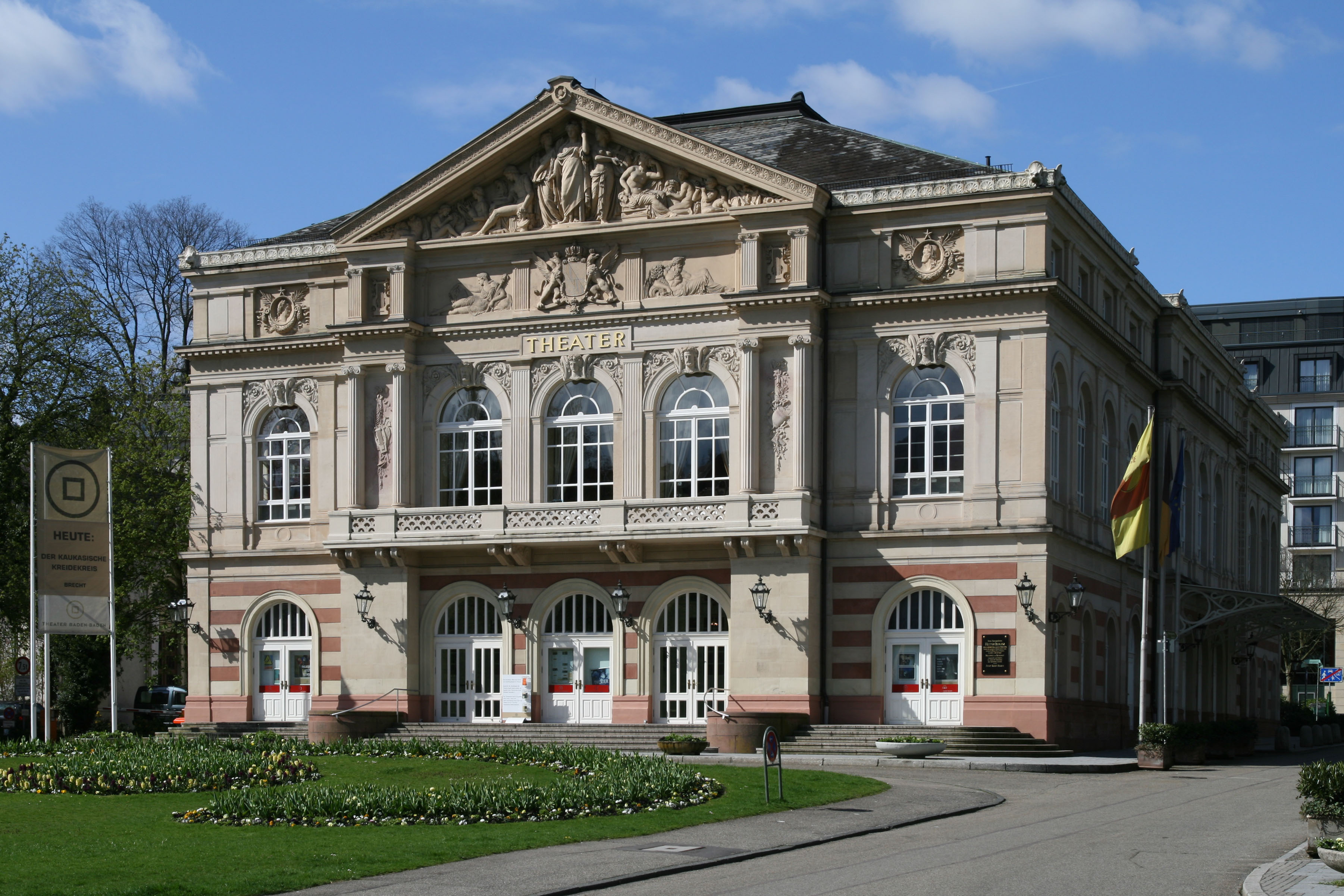 The Theater in Baden-Baden, Germany.